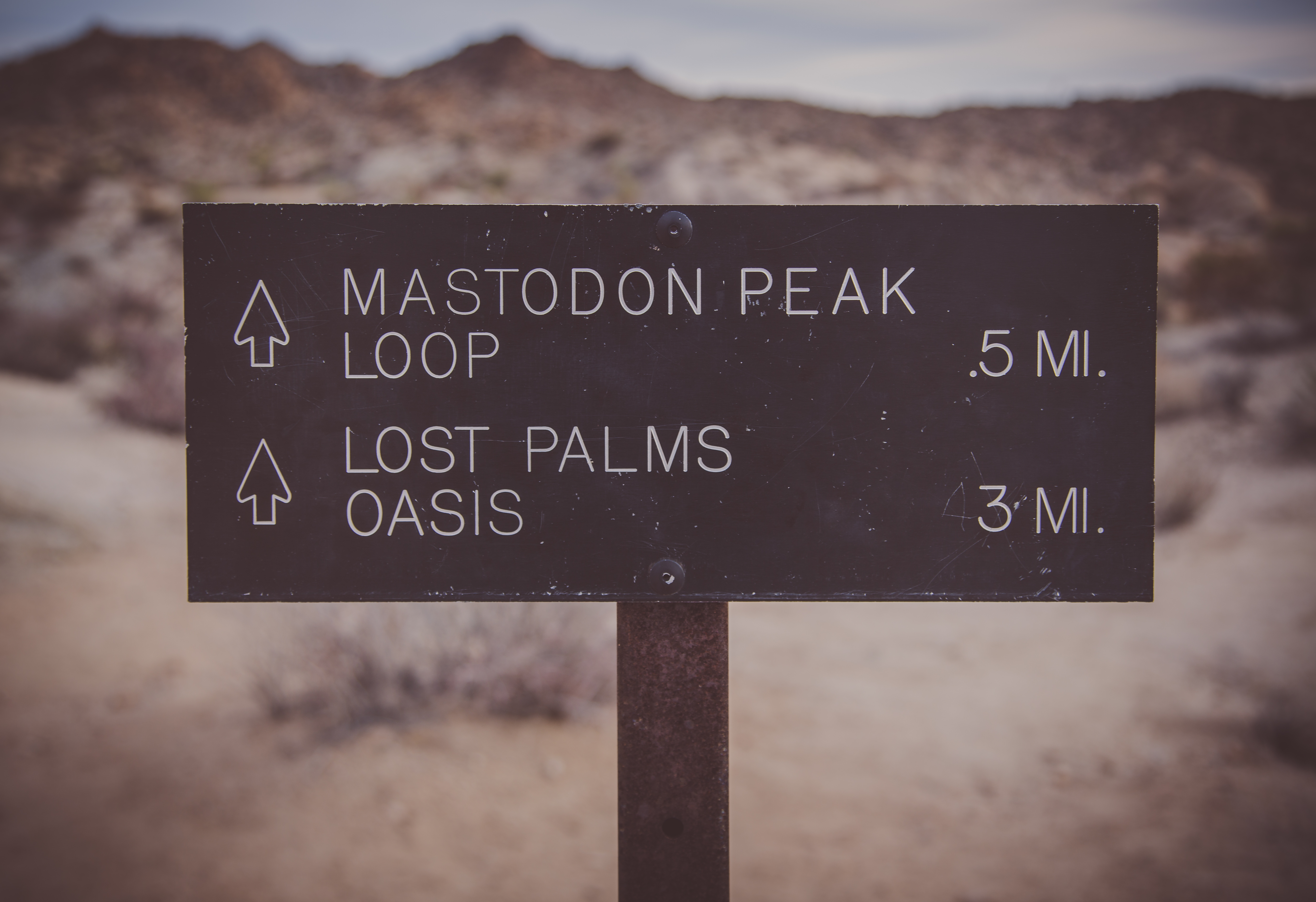 Joshua Tree National Park, California